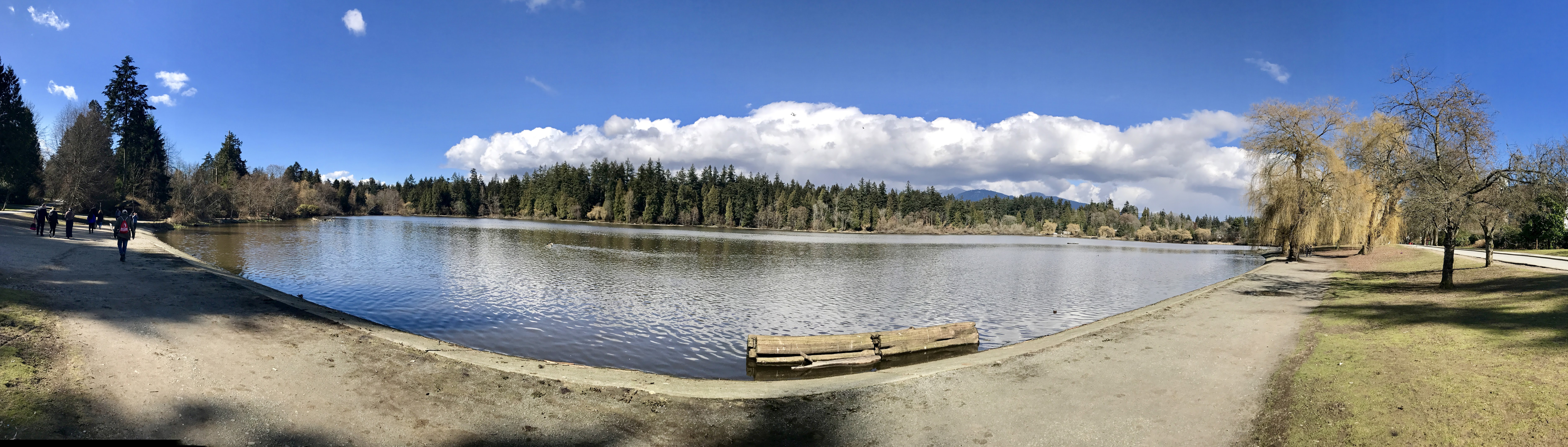 Lost Lagoon Stanley Park Vancouver